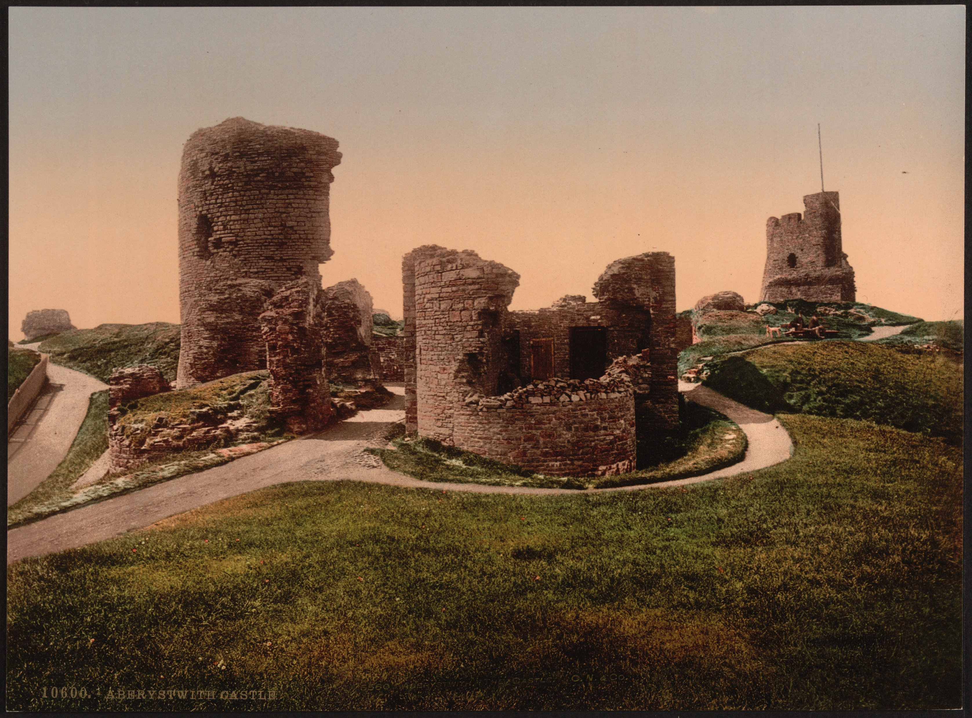 Forms part of: Views of landscape and architecture in Wales in the Photochrom print collection.; Title from the Detroit Publishing Co., catalogue J-foreign section. Detroit, Mich. : Detroit Photographic Company, 1905.; More information about the Photochrom Print Collection is available at Print no. "10600".